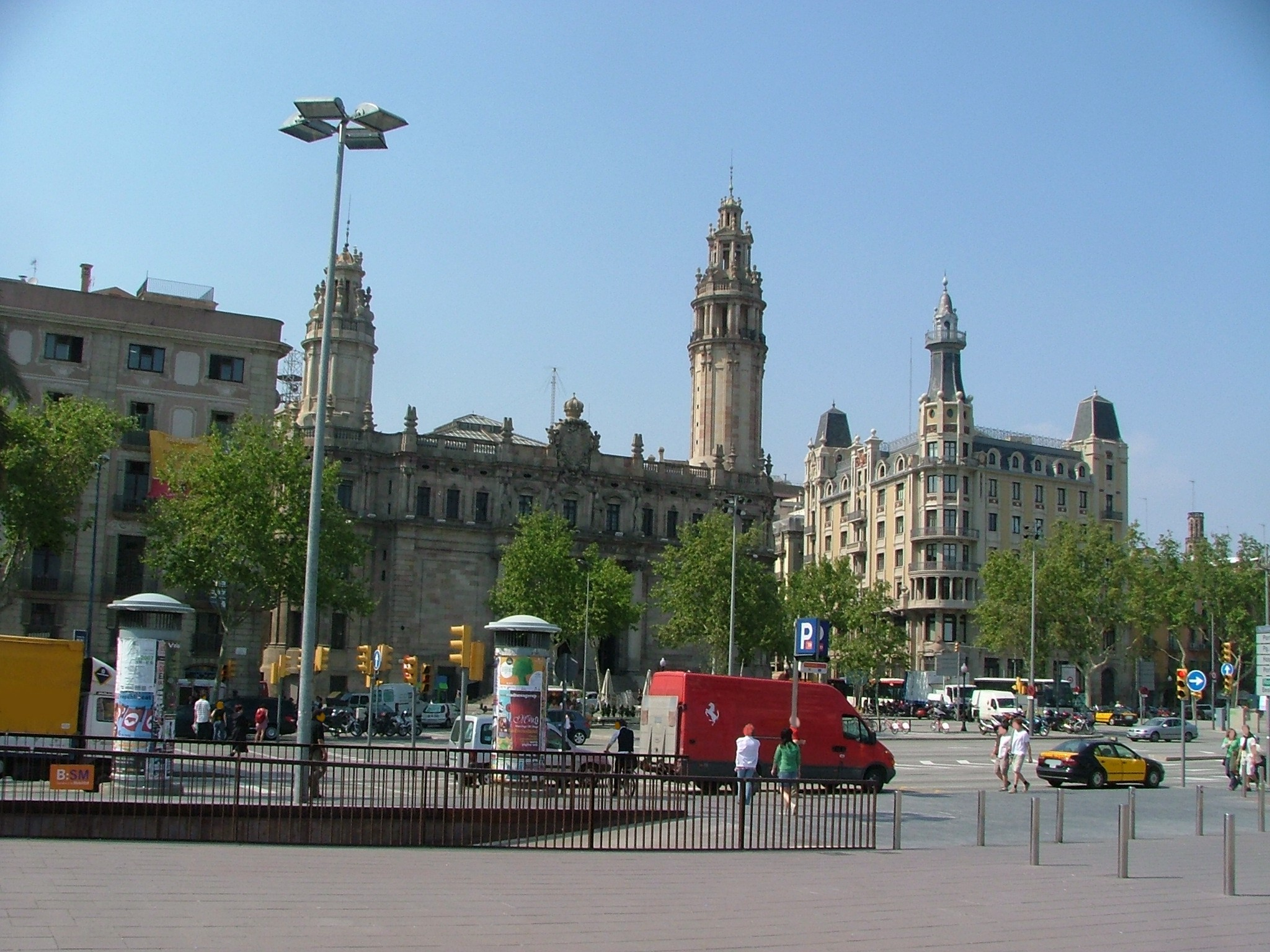 Post office at Passeig de Colom, Barcelona , Catalonia, Spain.